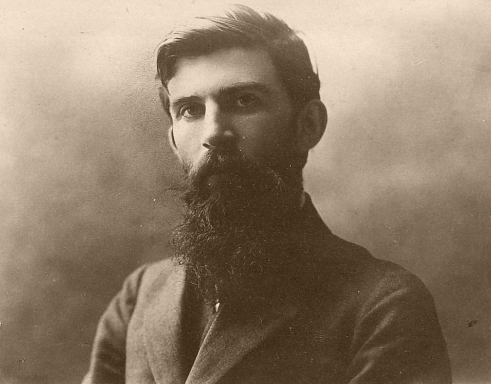 Bulgarian writer Petko Todorov (1879-1916)